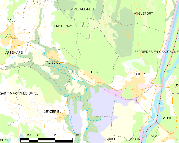 Map of French commune: Béon Map commune FR insee code 01039.png